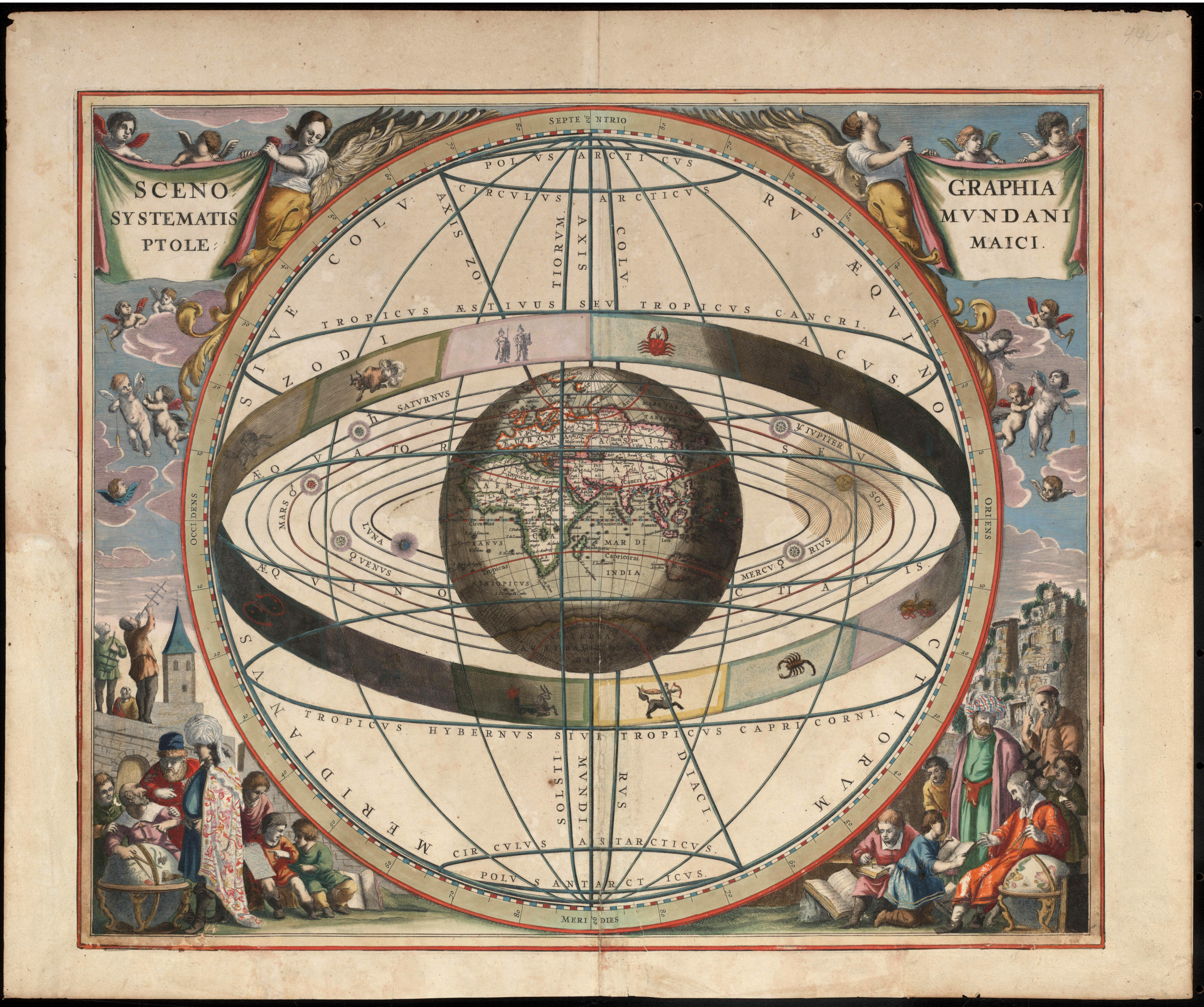 From Andreas Cellarius Harmonia Macrocosmica, 1660/61. Chart showing signs of the zodiac and the solar system with world at centre. Plate 2: SCENOGRAPHIA SYSTEMATIS MVNDANI PTOLEMAICI - Scenography of the Ptolemaic cosmography. Title: Scenographia systematis mvndani Ptolemaici [cartographic material]. Publisher: [Amsterdam : s.n., 1660] Physical Description: 1 map : col. ; 38 cm. in diam. Notes: "444" in top right hand margin in pencil. Rex Nan Kivell Collection Map NK 10241. Call Number: MAP NK 10241 Amicus Number: 9995246